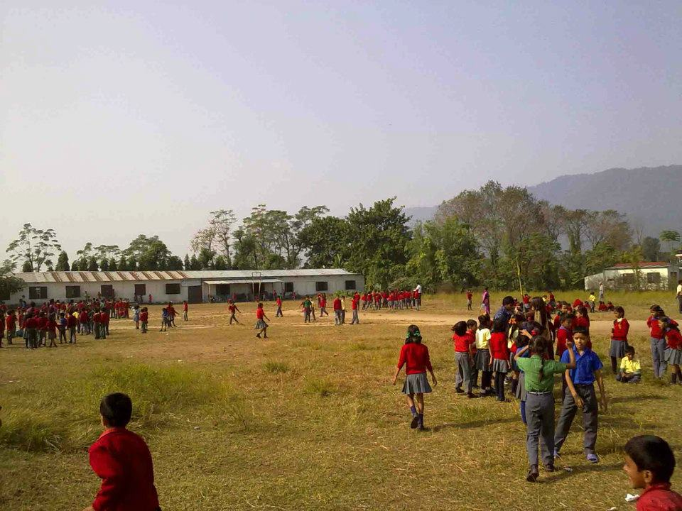 Playground of block 'B'